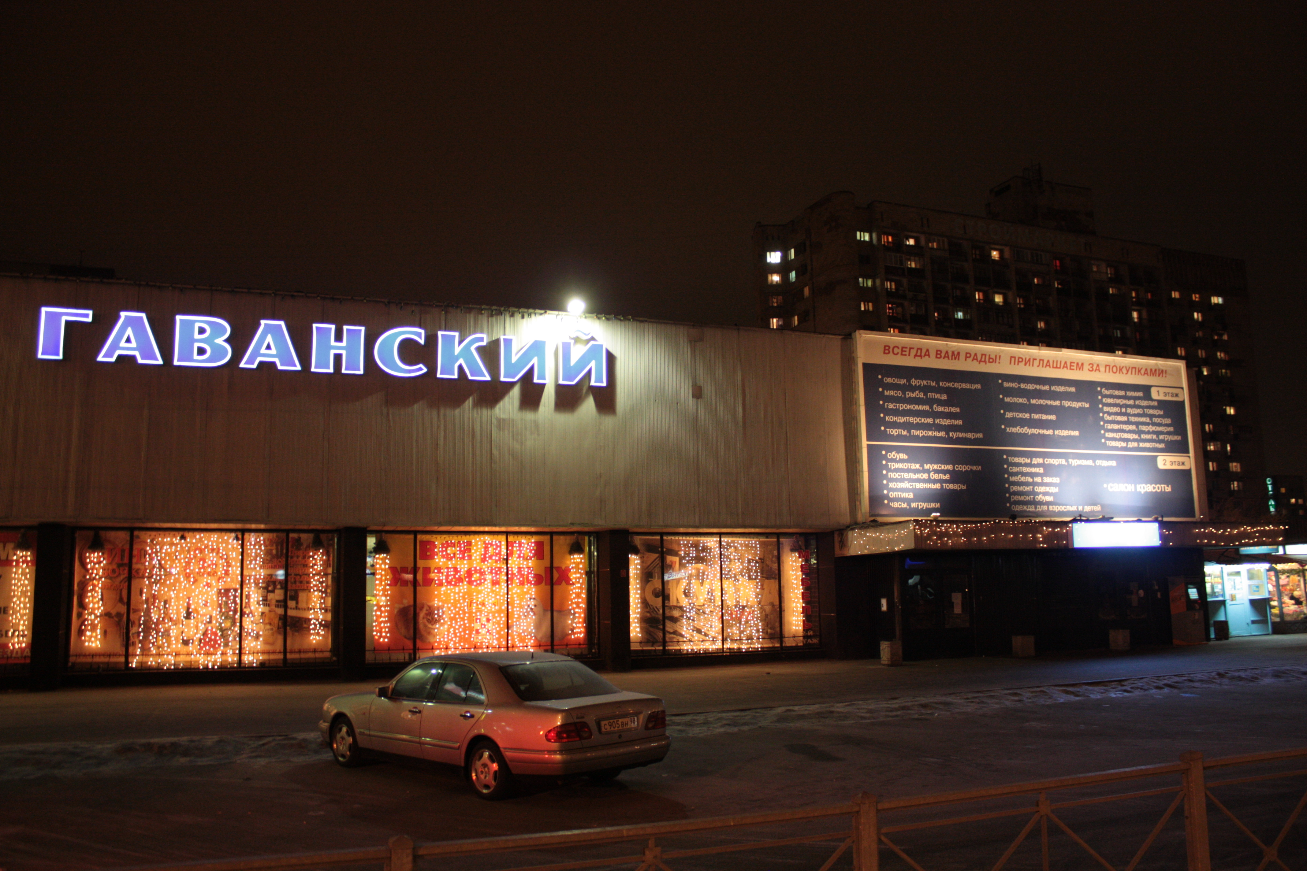 Univermag "Havana", is located 200 meters from the subway station Primorskaya.